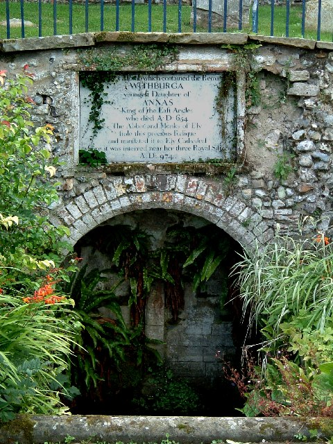 Site of Withburga's Tomb, East Dereham. In the churchyard of St. Nicholas, Dereham The plaque reads: [unreadable] of a Tomb which contained the Rema[ins of] WITHBURGA youngest Daughter of ANNAS King of the East-Angles who died AD 654 The Abbot and Monks of Ely stole this precious Relique and translated it to Ely Cathedral where it was interred near her three Royal Sisters AD 974